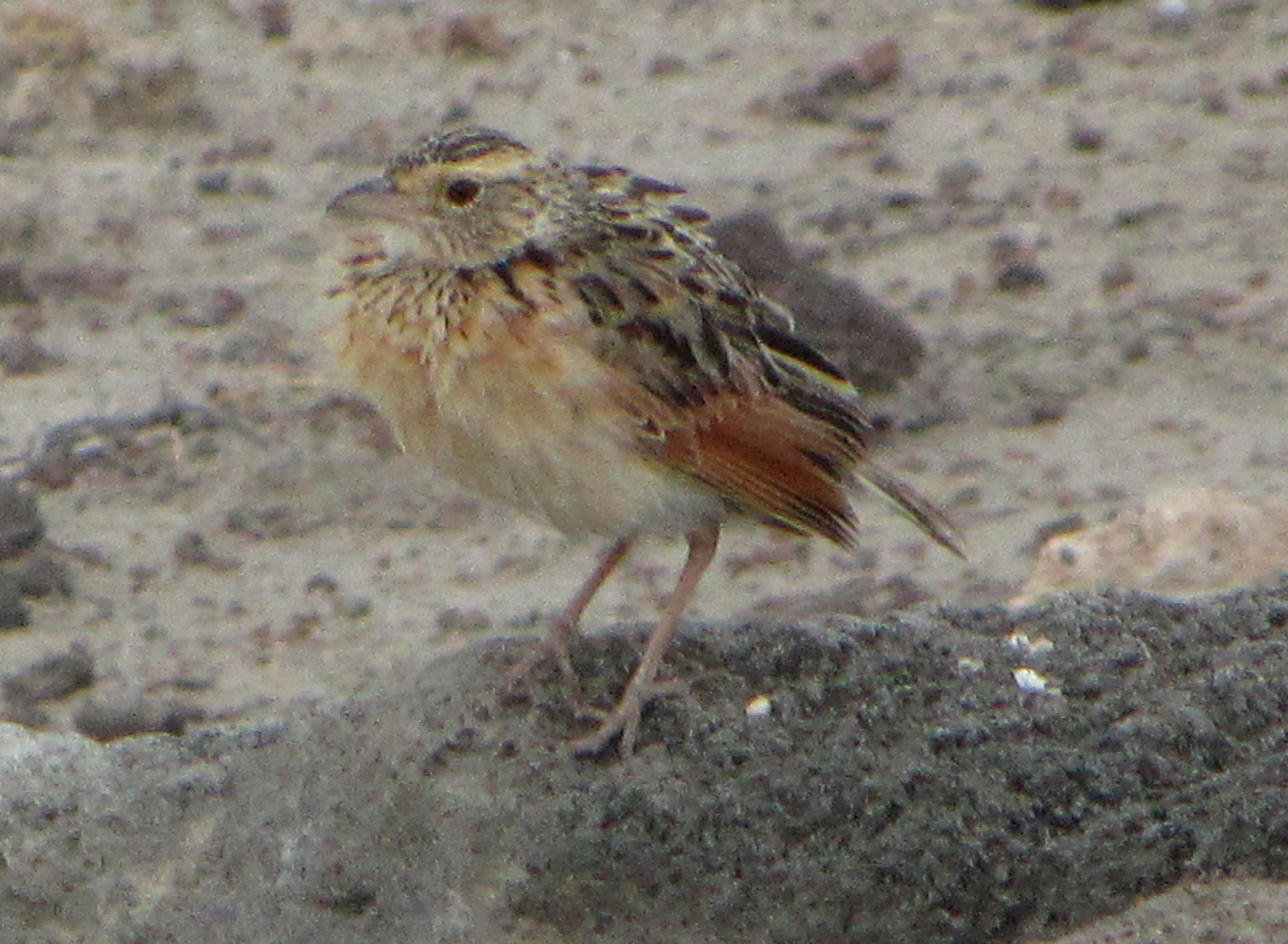 Rufous-naped Lark (Mirafra africana), juvenile, Ngorongoro Crater, Tanzania